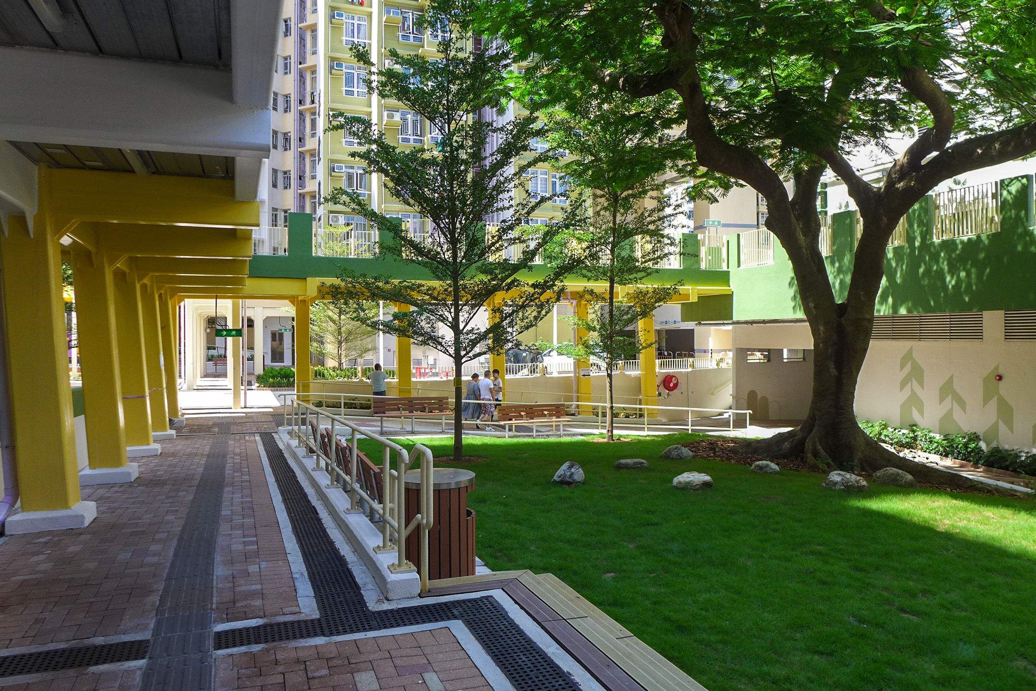 Long Shin Estate Courtyard